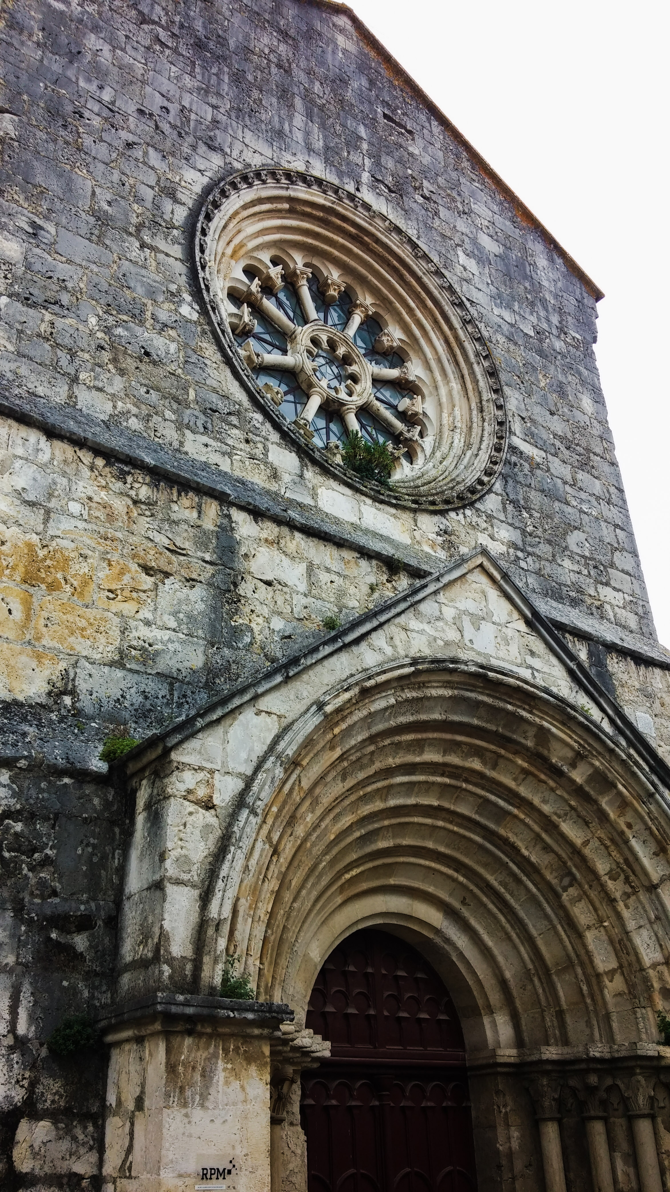 Built in the 17th century